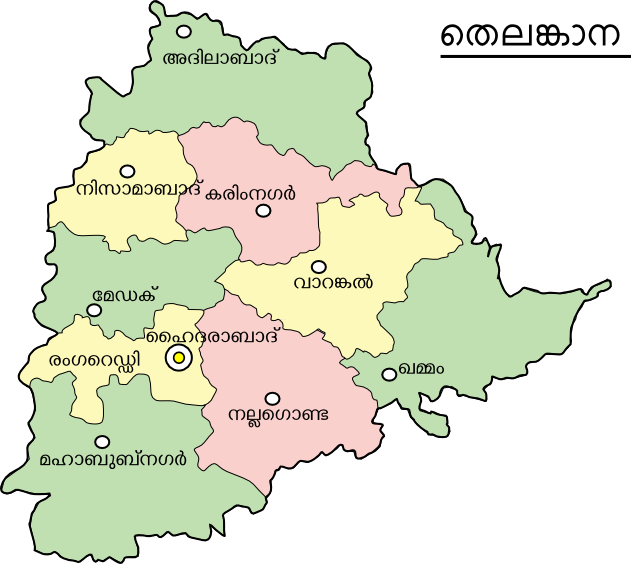 Telangana map in malayalam